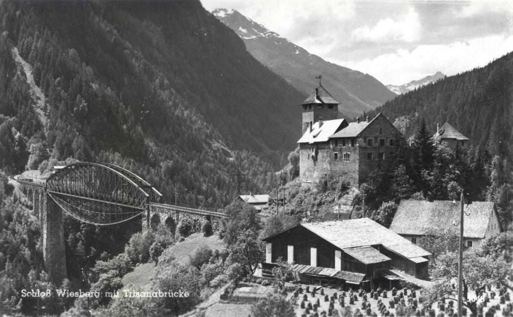 Trisannabridge with reinforcement truss and Castle Wiesberg